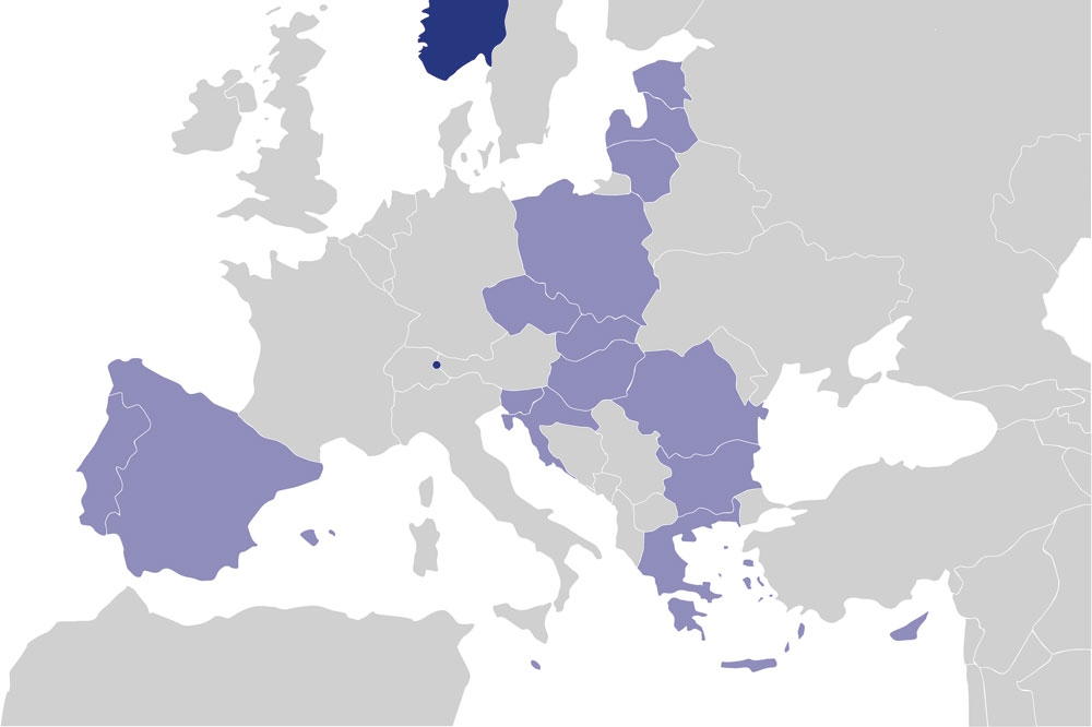 In all, 16 countries in Northern, Central and Southern Europe receive funding under the EEA and Norway Grants 2009-2014.